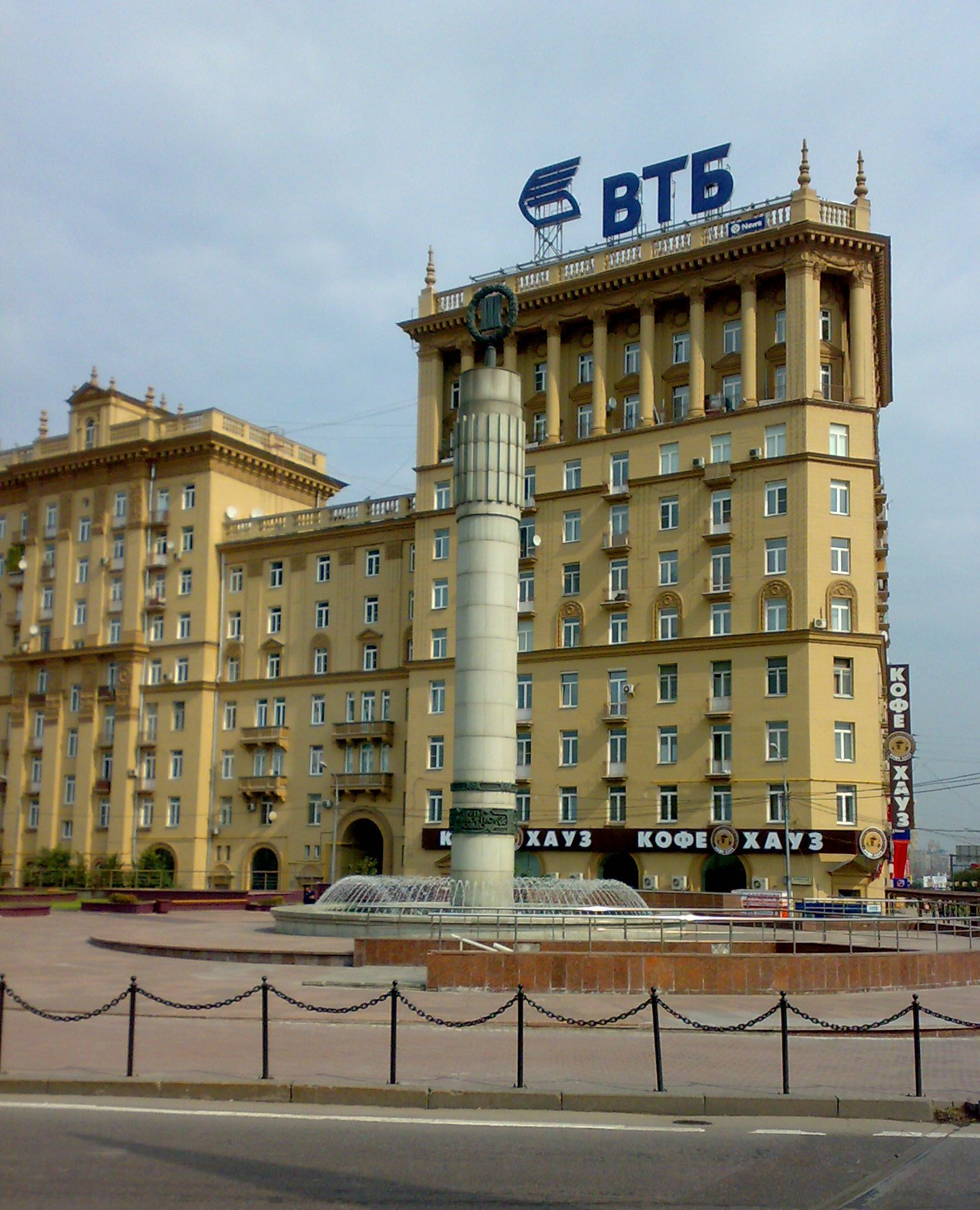 took this image using my mobile phone, in September, 2008. Fountain off Kutuzovsky Prospekt in Moscow, with Stalinist apartment blocks in the background.